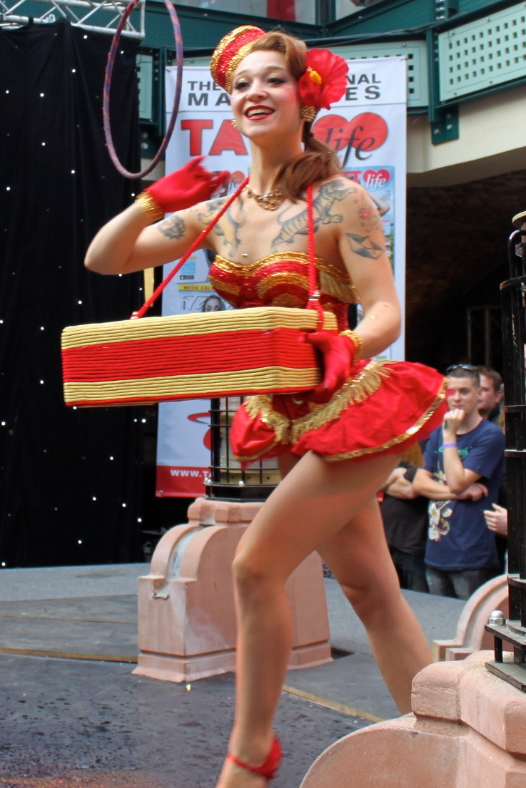 London Tattoo Convention 2013.